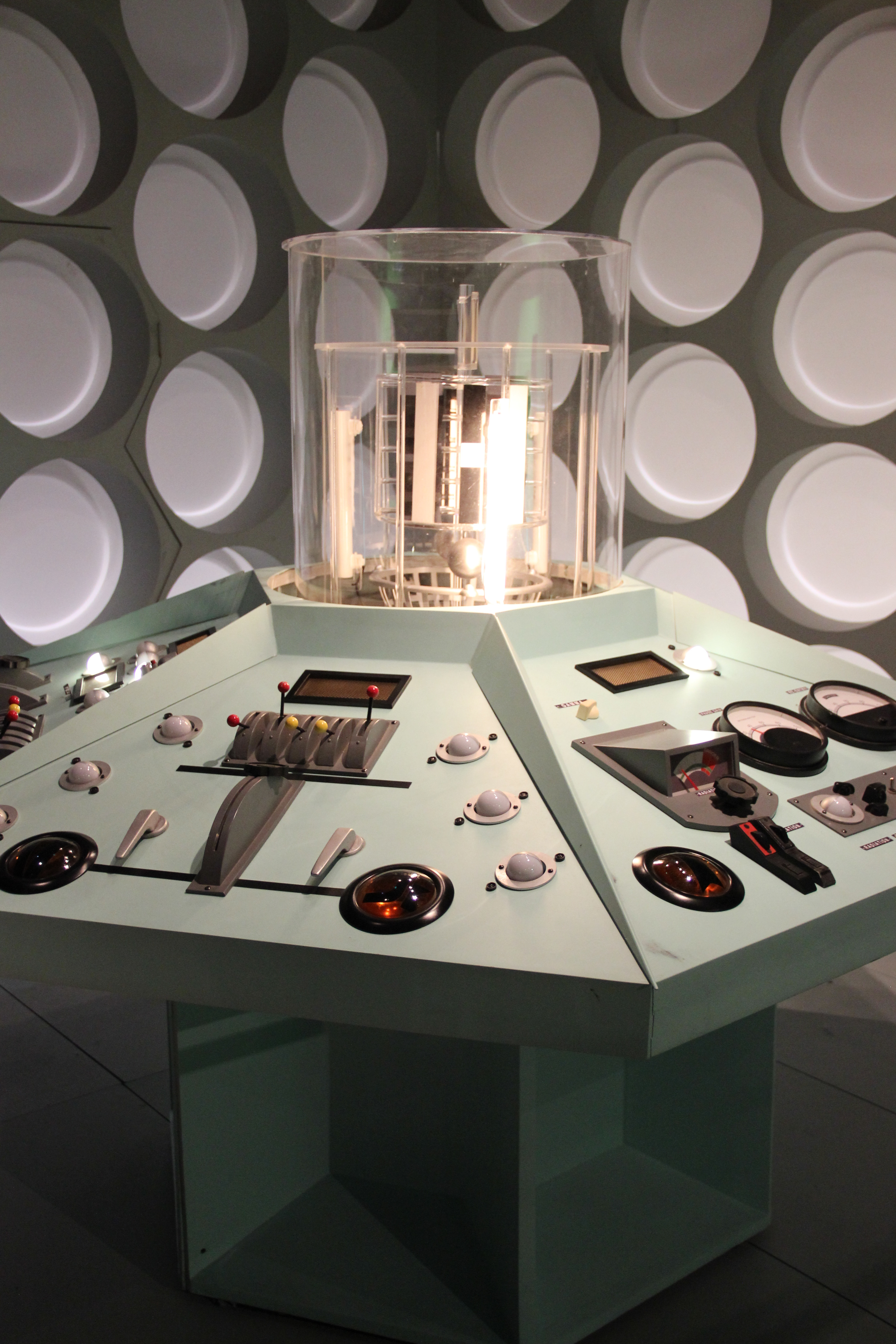 Inside the Tardis Doctor Who Experience